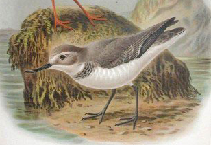 Wrybill, Anarhynchus frontalis.